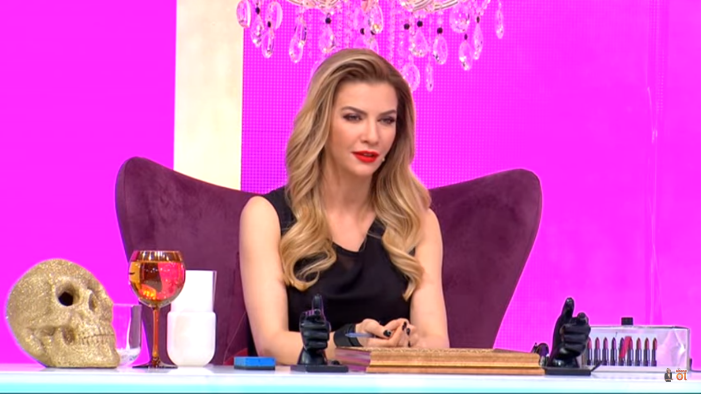 Serbian-Turkish model and fashion designer Ivana Sert during a TV-show called İşte Benim Stilim.